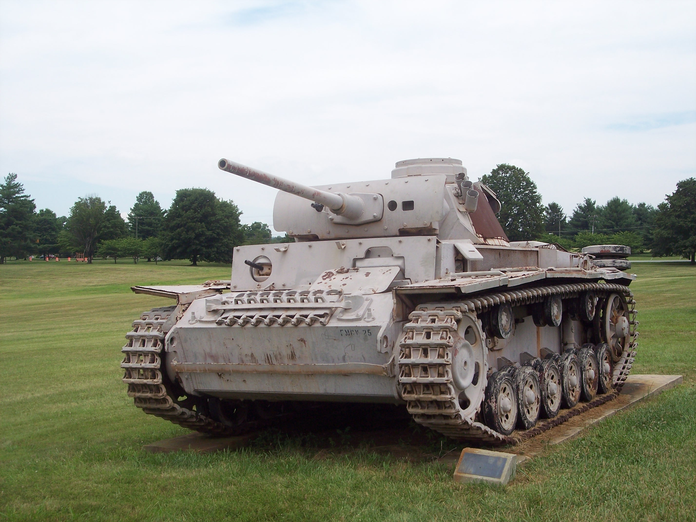 A Panzerkampfwagen III at Aberdeen Proving Grounds.